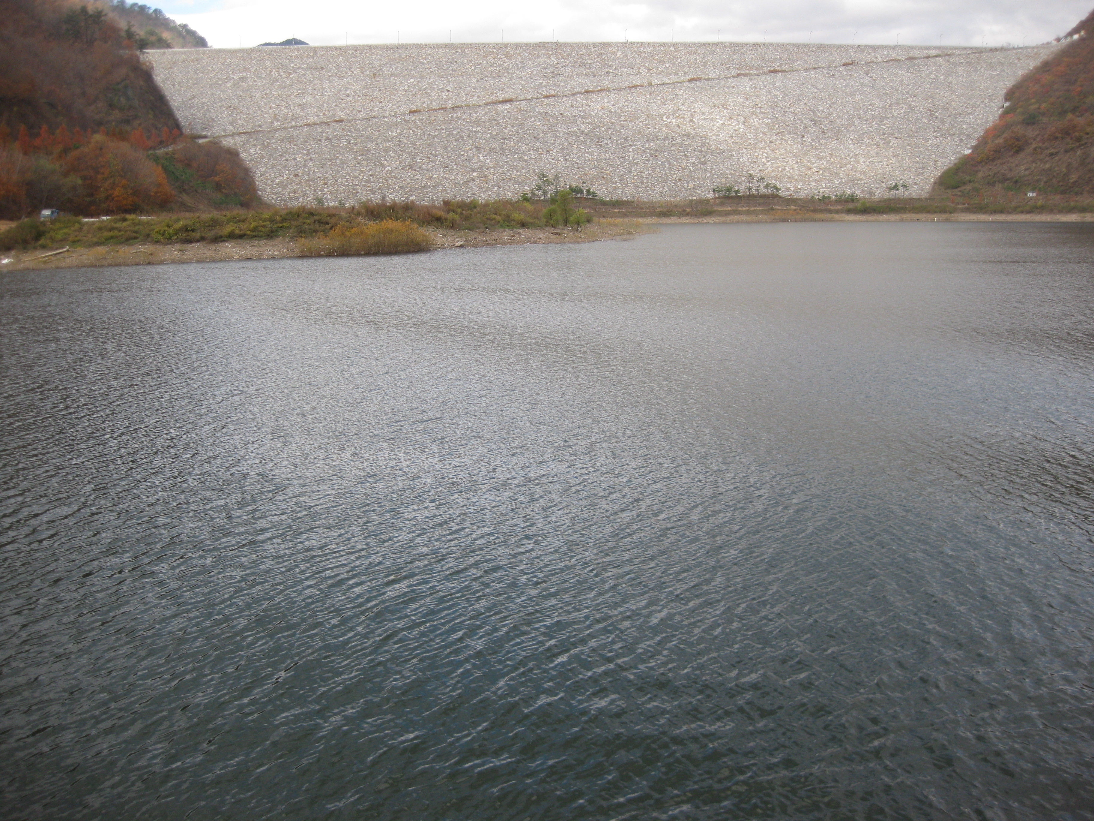 Downstream view of the Peace Dam, Gangwon Province, South Korea